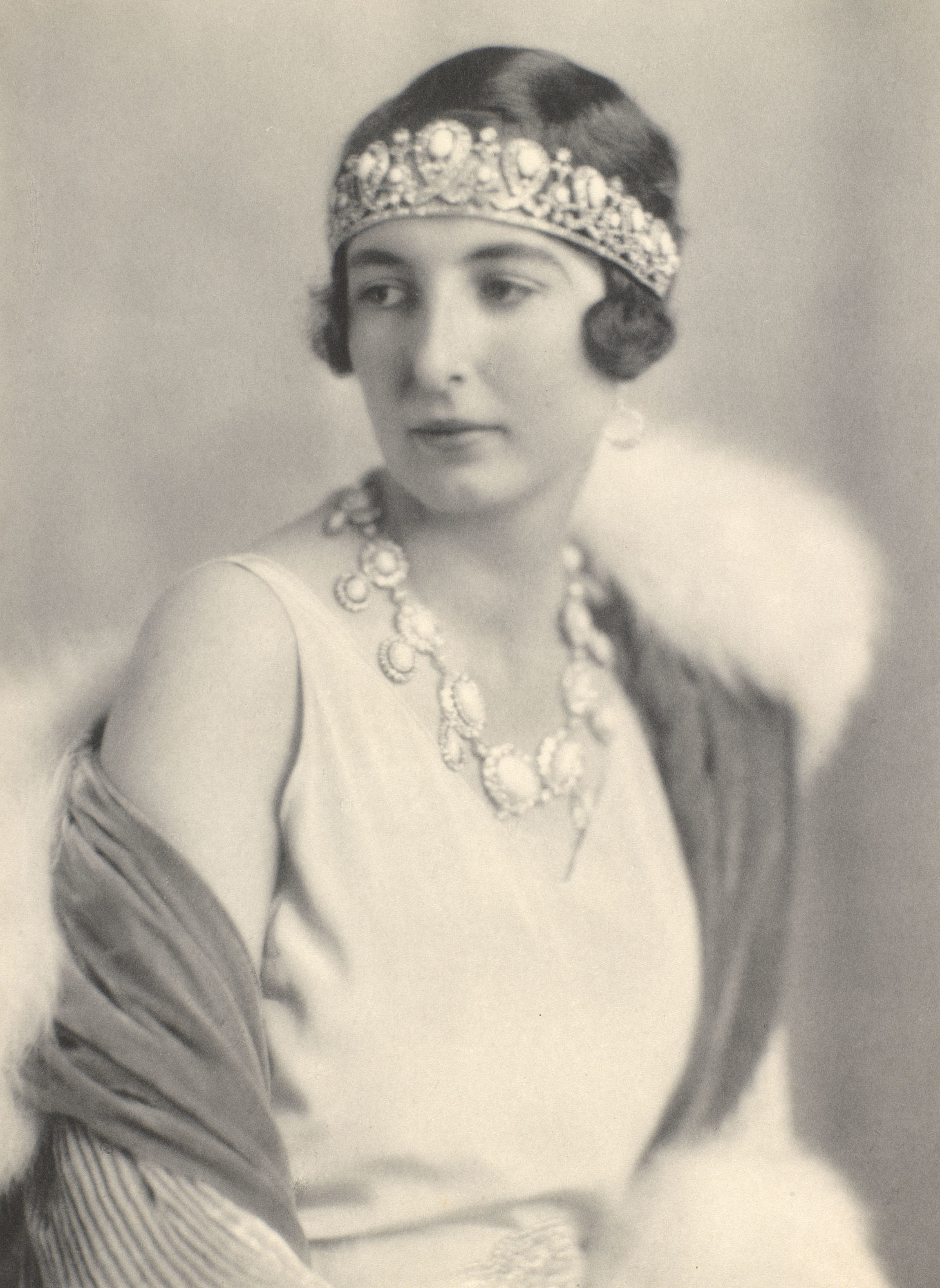 Princess Françoise of Orleans and Princess of Greece and Denmark